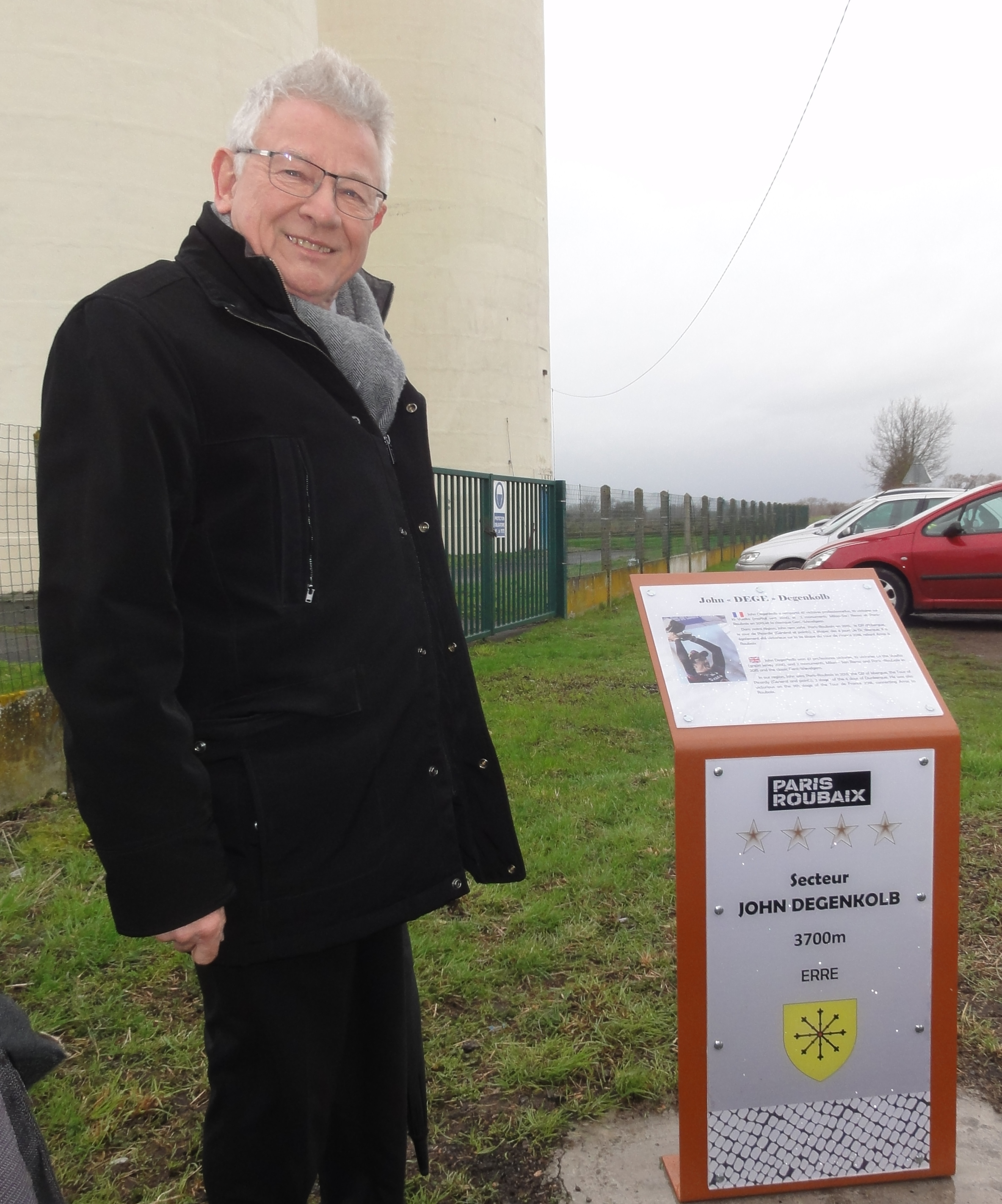 Depicted person: Alain Pakosz – French politician Template:Depicted event Depicted place: Erre